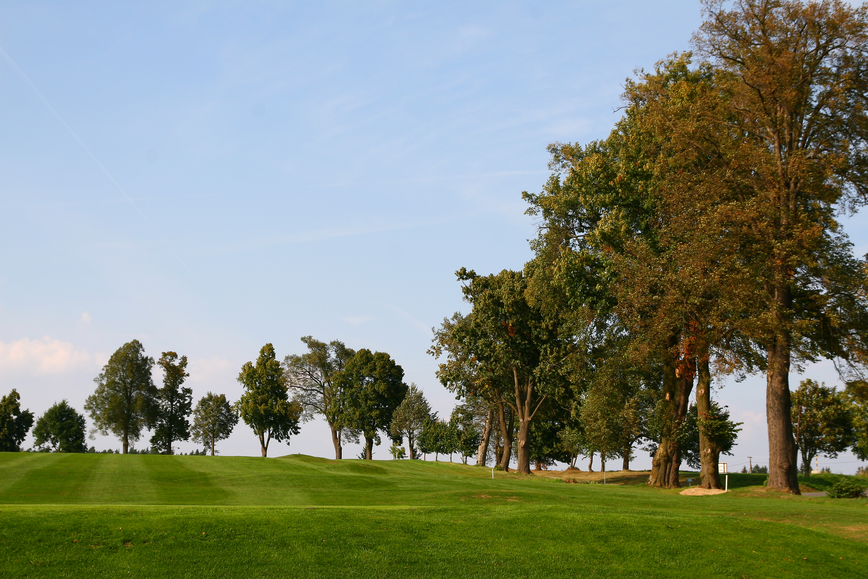 Famous trees Alfrédovská alej close to the Kostelec the village in Tachov District, Czech Republic